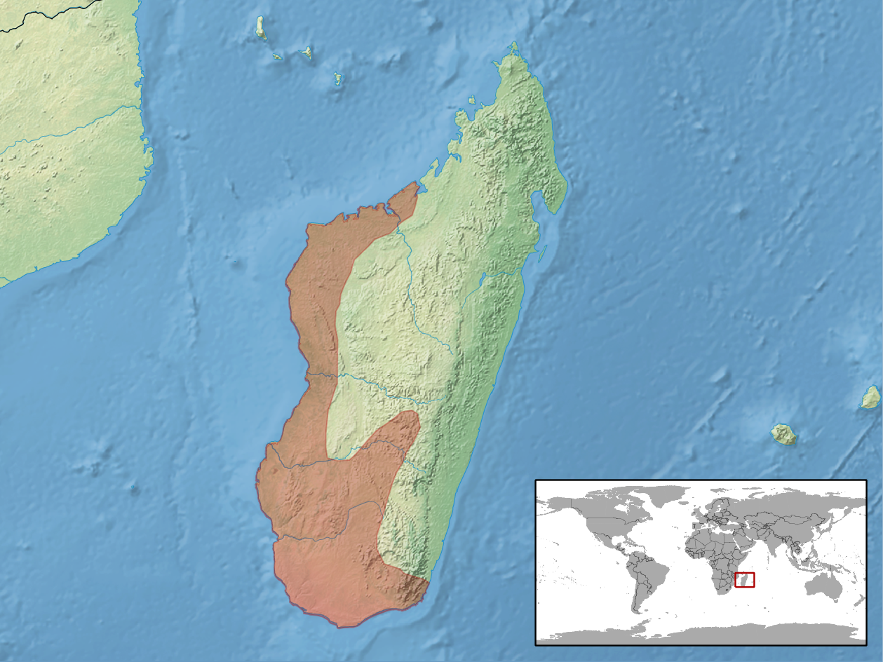 geographic distribution of Furcifer verrocosus syn. Furcifer verrucosus (Native: Madagascar)